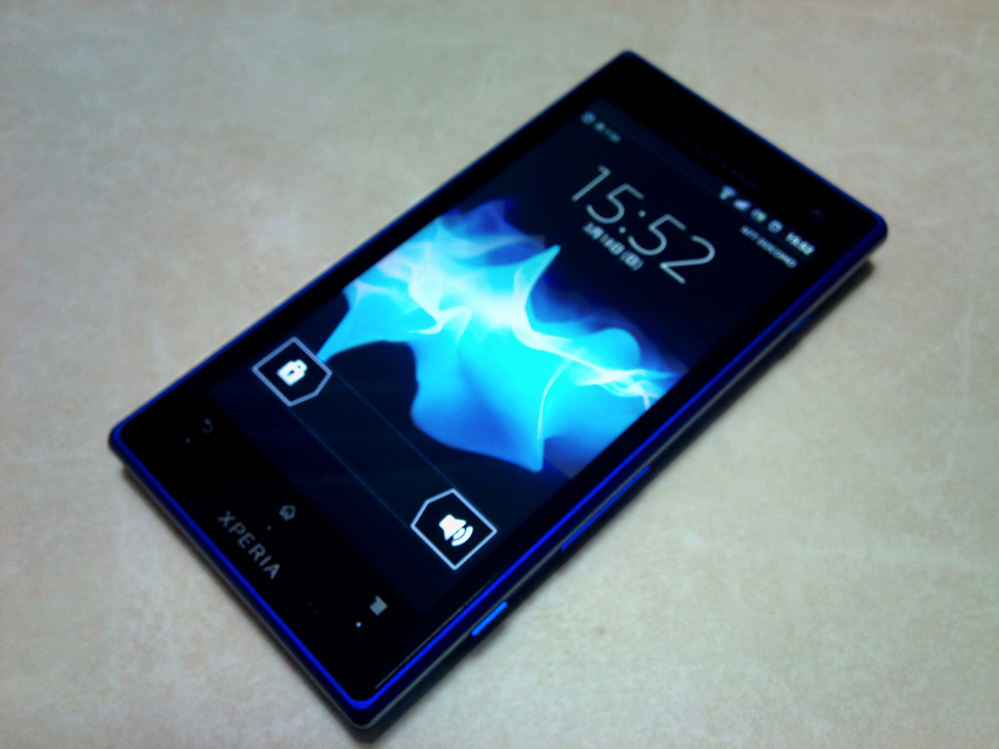 I adjusted exposures of the original picture with a picture-editing program.